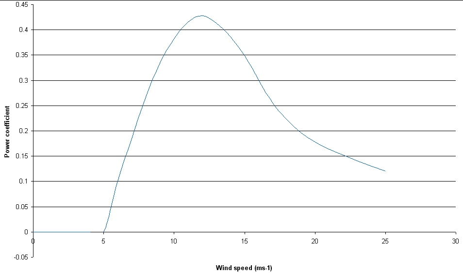 This graph is an approximation of the power coefficient for a typical 1 MW horizontal axis wind turbine. The power coefficient represents a non-linear dynamic system. Refer Mok K., Identification of the Power Coefficient of Wind Turbines